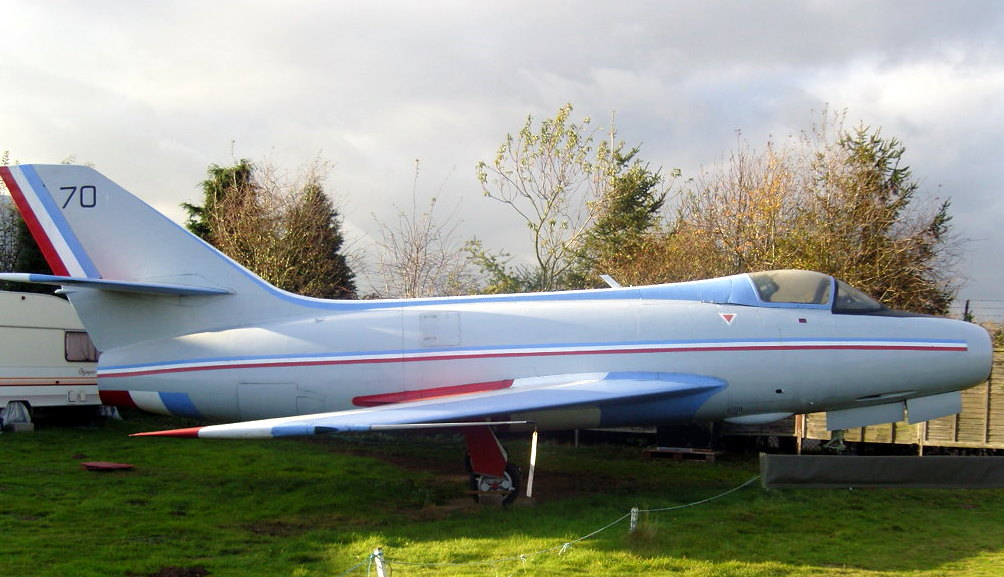 Photographed at the Midland Air Museum, Coventry Airport. Photo Ref; SNC10200